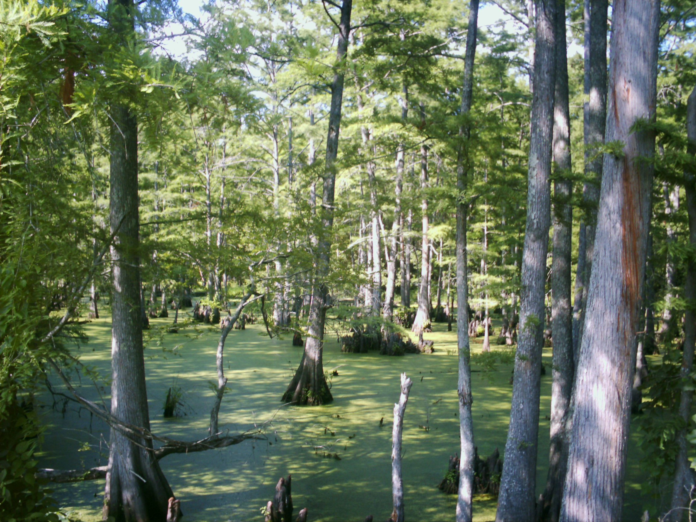 Bald cypress (Taxodium distichum) trees in Big Cypress Bayou — a tributary of the Red River of the South, located near Jefferson in Marion County, Texas.